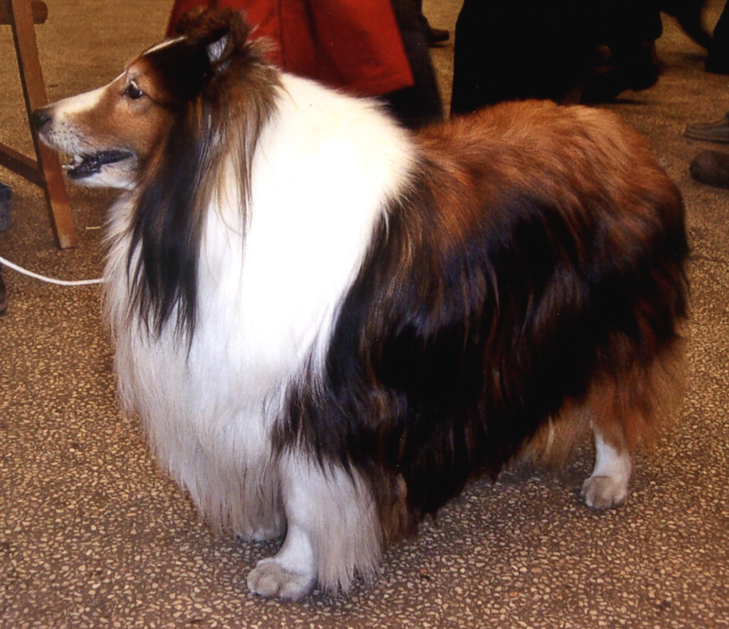 Shetland Sheepdog autor:Pleple2000 13:33, 22 December 2005 (UTC)